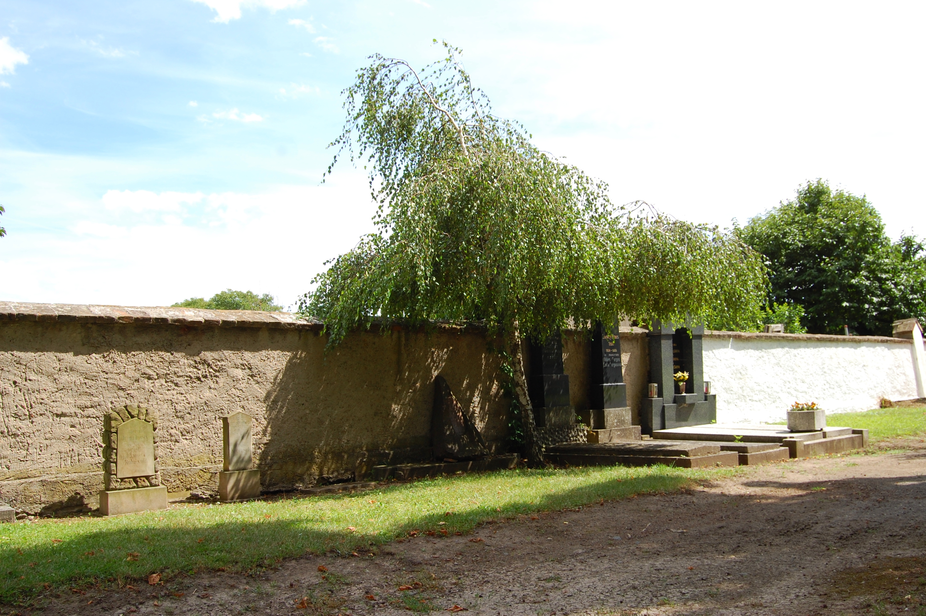 Jewish cemetery in Lovosice, Czech Republic